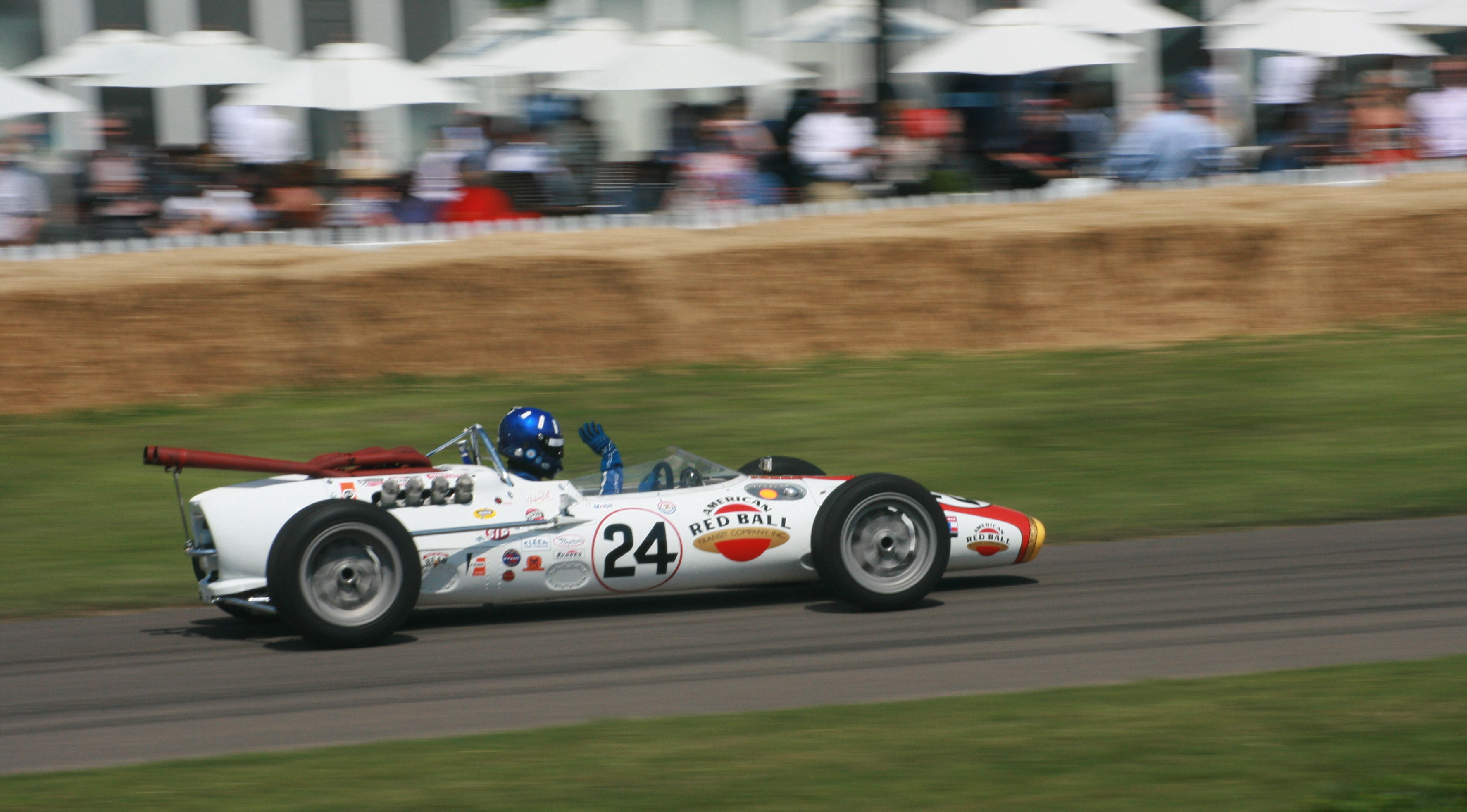 Josh Hill driving his grandfathers (Graham Hill) Lola which won the 1966 Indy 500